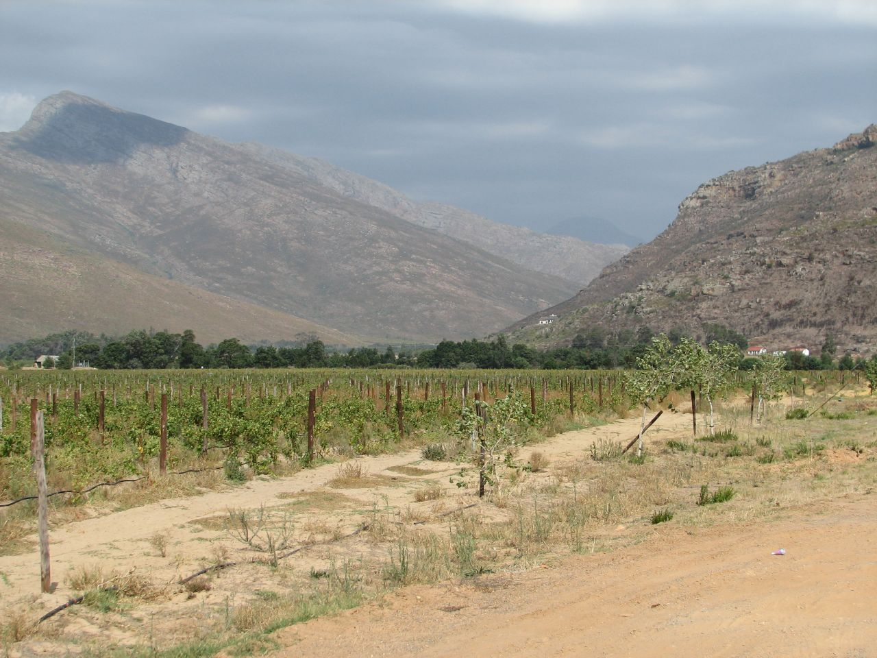 South African wine region of Tulbagh. In the foreground are the vineyards - wine producing area here near Worcester.